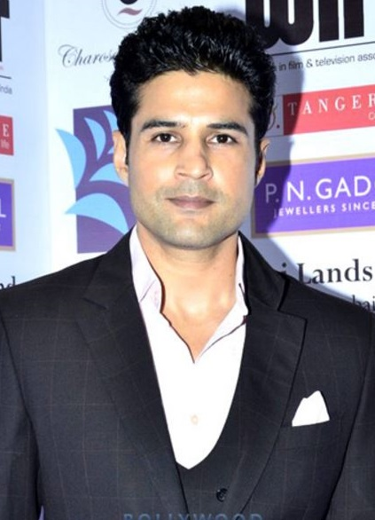 Rajeev Khandelwal at the WIFT felicitation